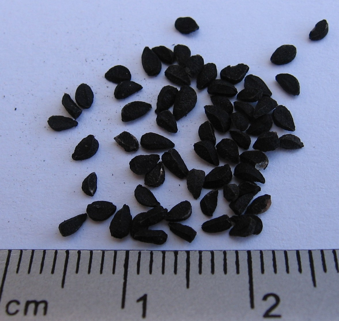 Seeds of Nigella sativa, a.k.a. kalonji, fennel flower, black caraway, nutmeg flower, or Roman coriander; Photographed by TheGoblin 22:06, 18 February 2006 (UTC)